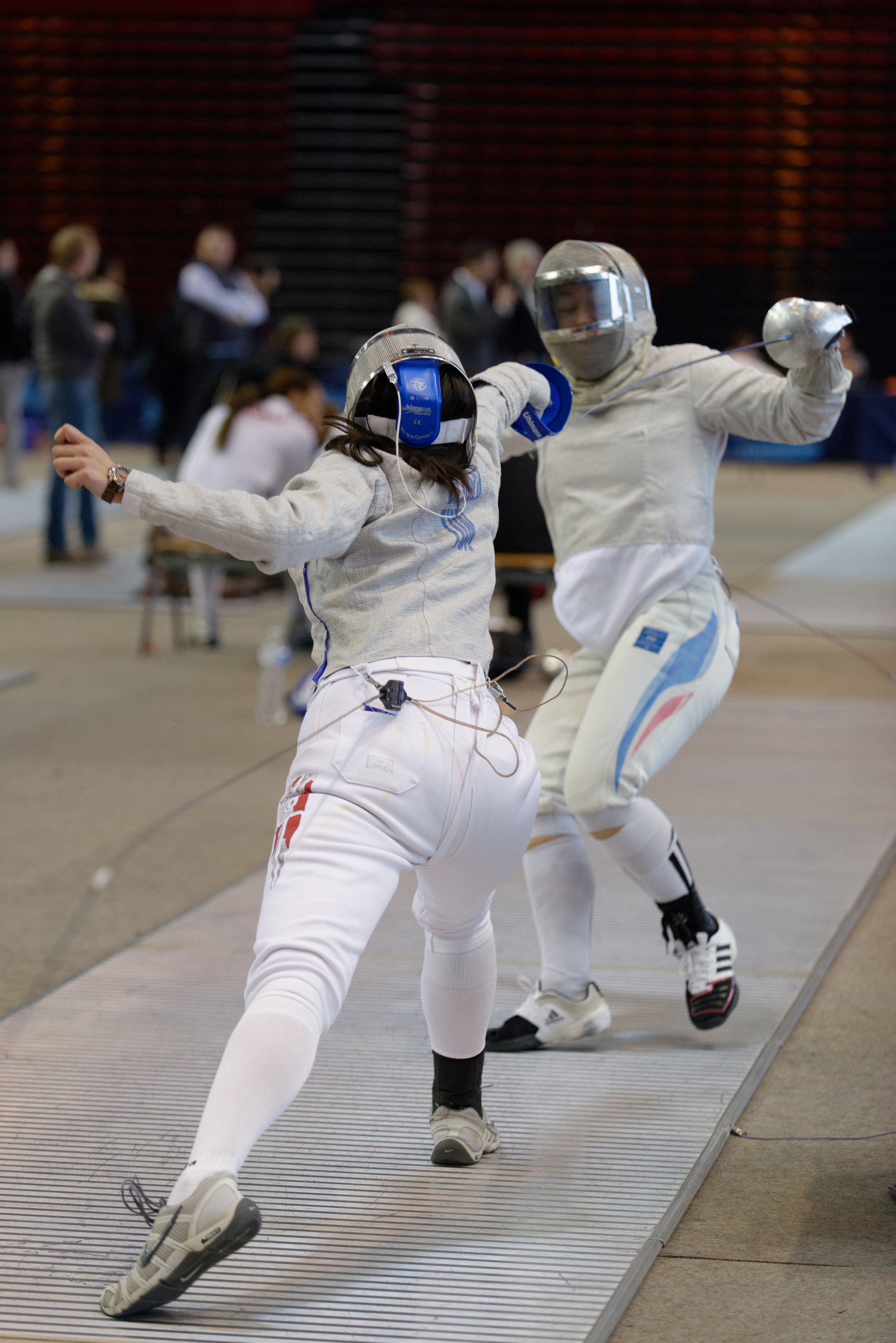 Azza Besbes (from the back) v Alizée Jammes, semi-final of the sabre event of the Tournoi international Paris Île-de-France 2013.